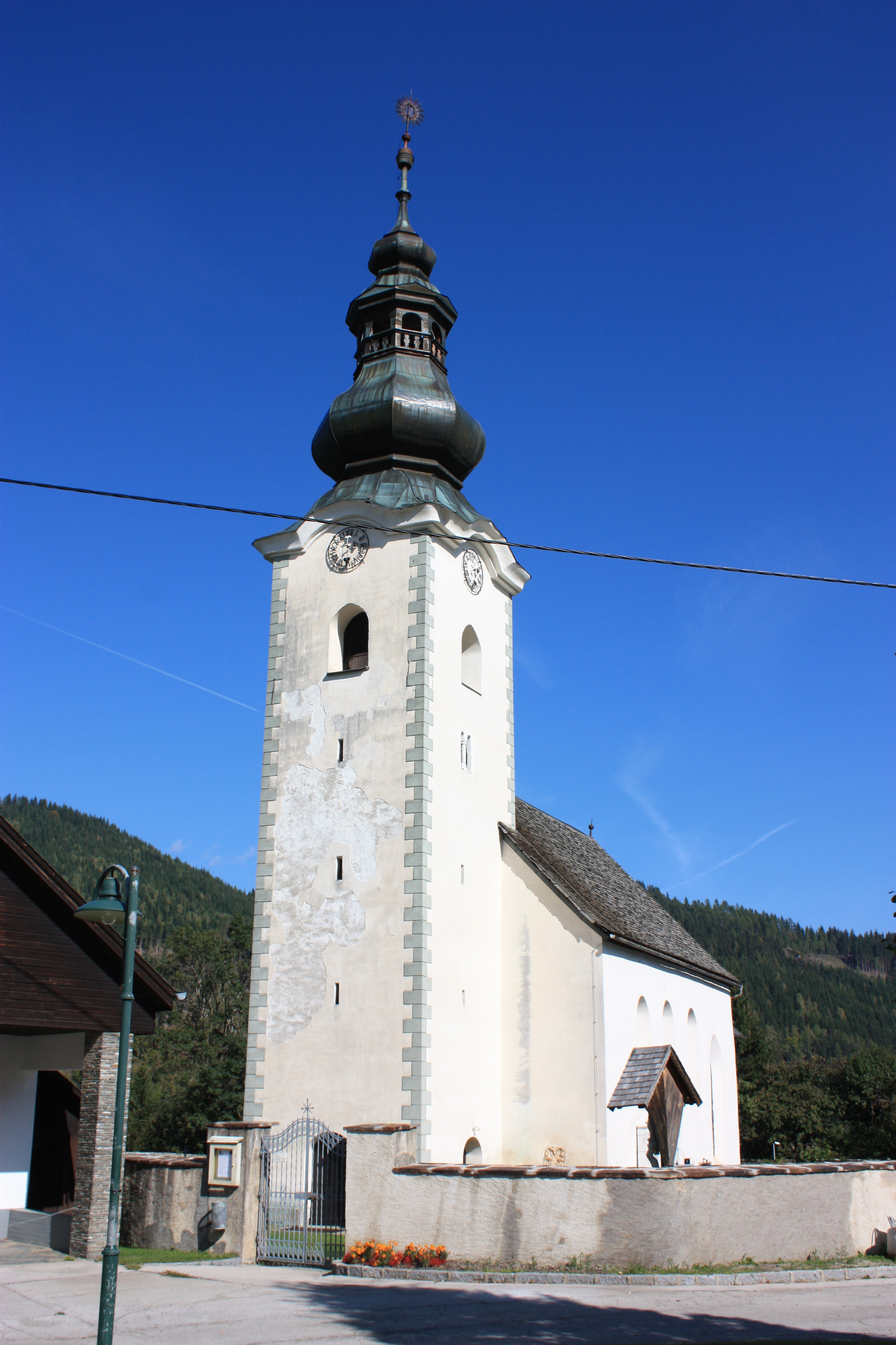 Parish church Locality:Grades Community:Metnitz